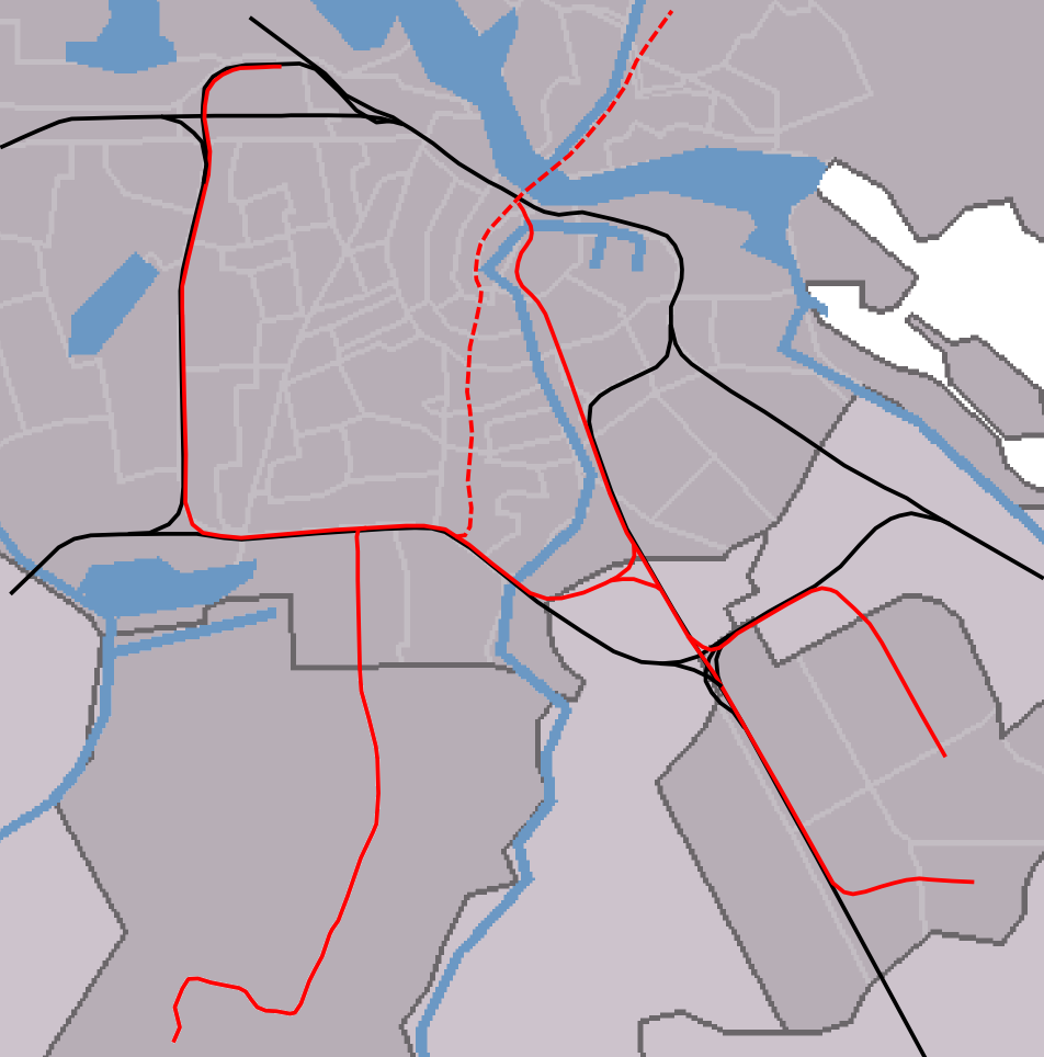 outline map Amsterdam metro/railways